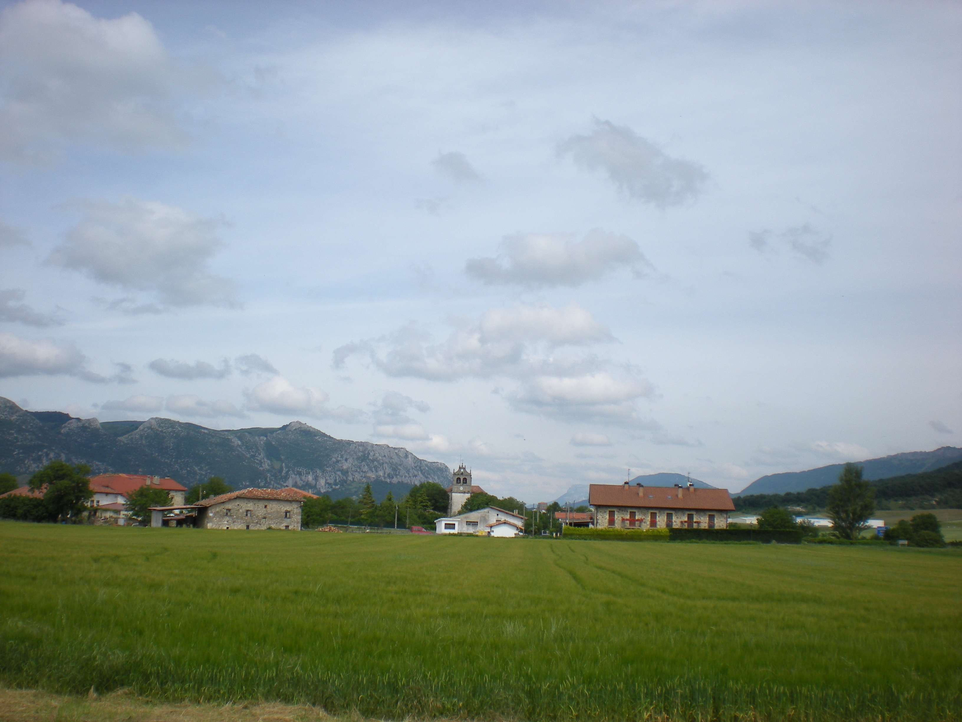 The village of Egilatz (Donemiliaga, Basque Country), viewed from the West